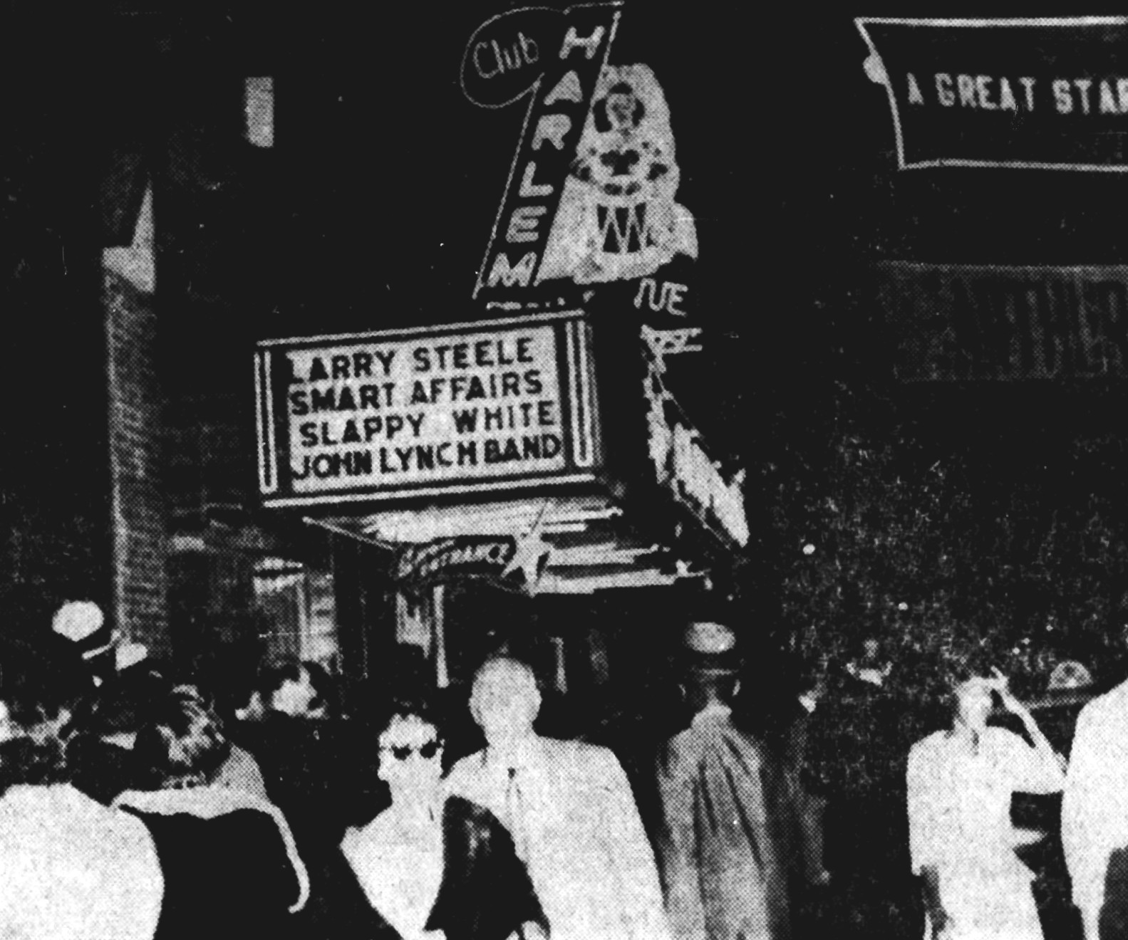 Photo of Club Harlem from the Pittsburgh Courier February 8, 1964. The newspaper was sold in 1965 and discontinued in 1966 by the company's new owner. It began again with the name of The New Pittsburgh Courier in 1967. Two mastheads for the February 8, 1964 edition of the paper are shown in links above. Neither displays any copyright information. I have checked the entire 16 page paper for this date and found no copyright marks. Checking publications-original registrations for 1964 found none listed for The Pittsburgh Courier. There's no evidence of original copyright for this newspaper.